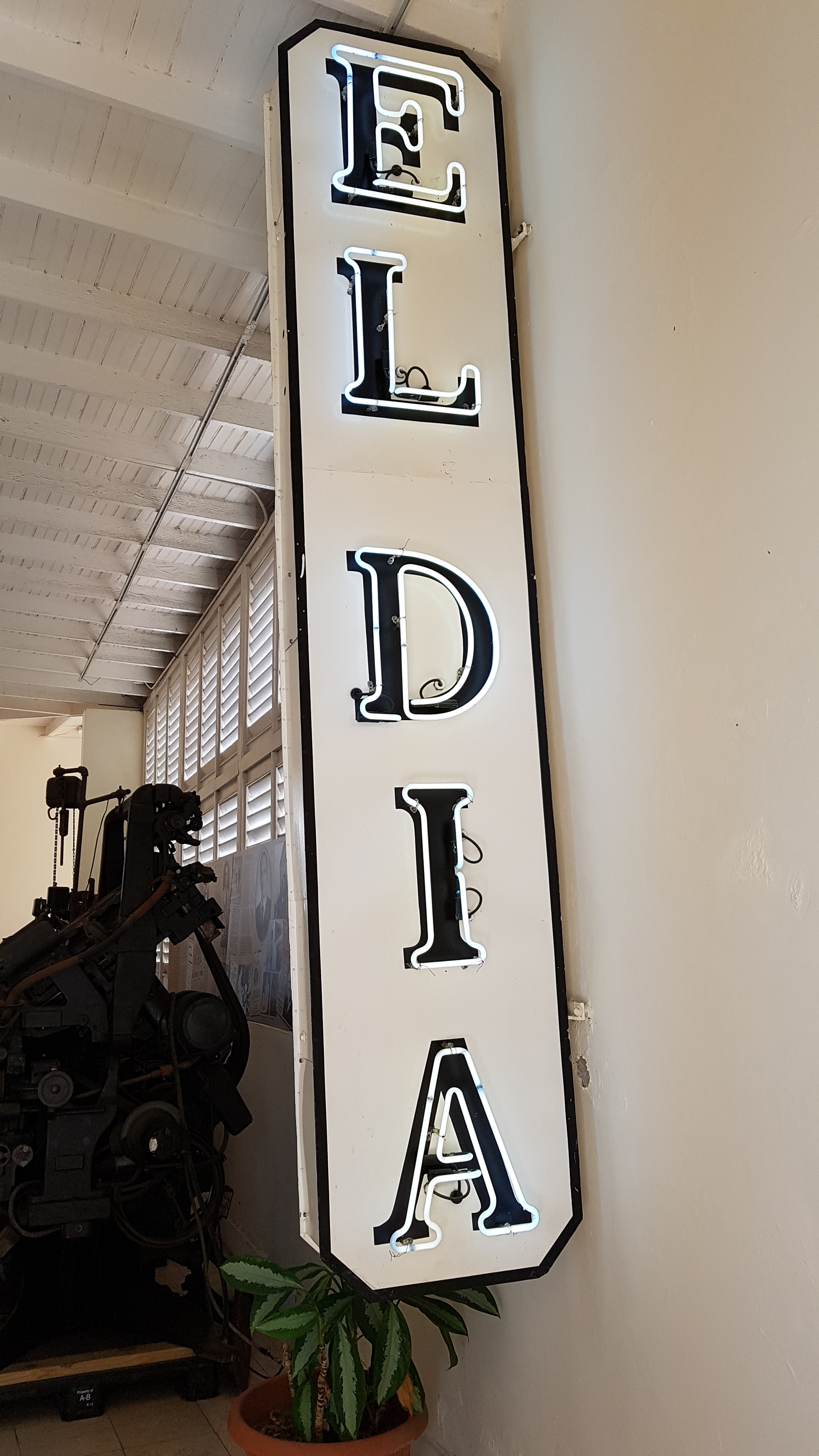 Letrero en neón (ca. 1965), Periódico El Día, Museo de la Historia de Ponce, en Ponce, Puerto Rico (20191221 133120)